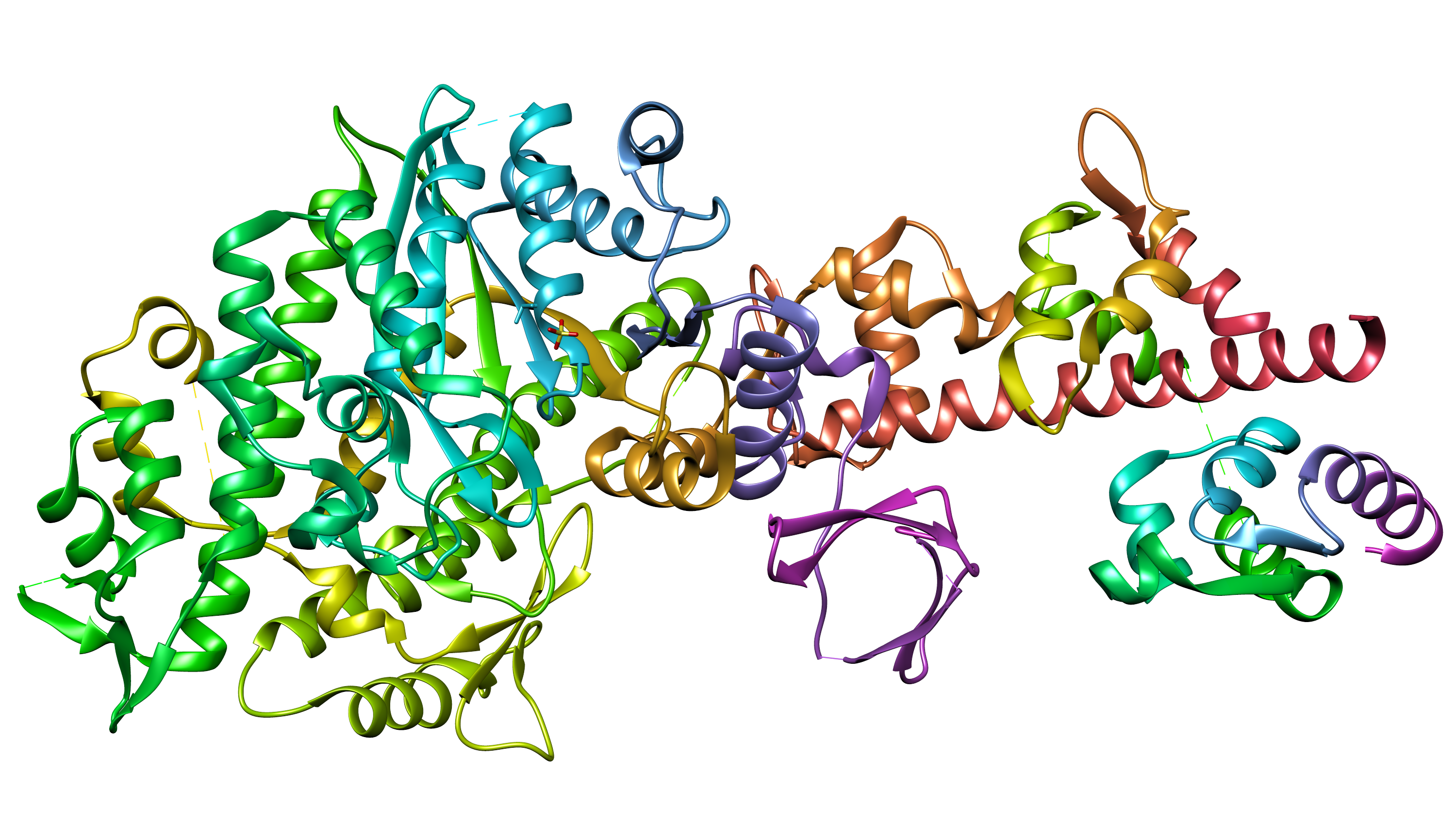 Crystal structure of myosin V motor with essential light chain - nucleotide-free. A structural state of the myosin V motor without bound nucleotide. Visualized with UCSF Chimera. PDB: 1OE9